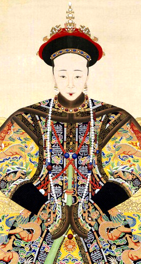 The posthumous Empress Xiaomucheng, first wife of Emperor Daoguang of Qing dynasty